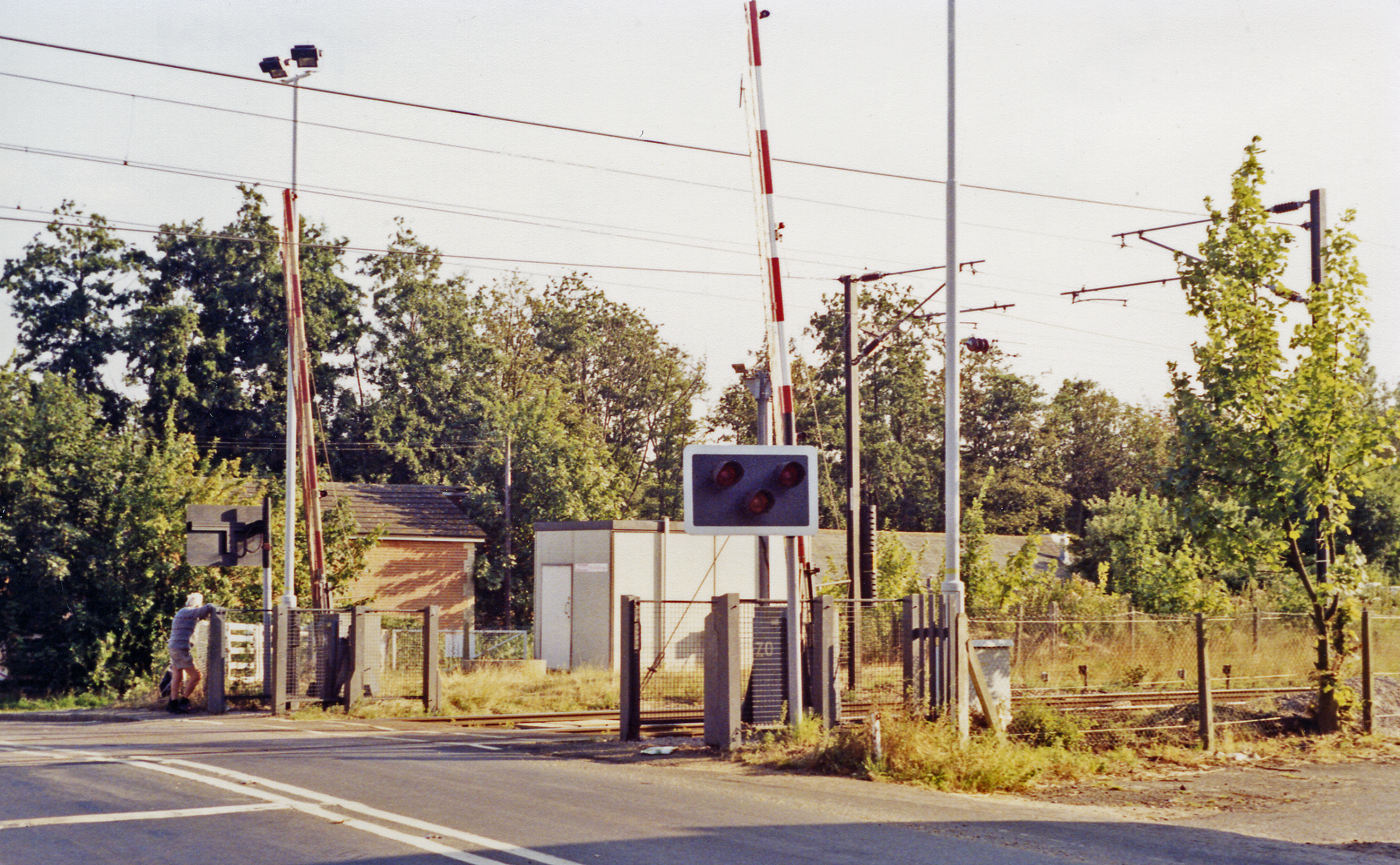 Site of Ardleigh station. View NW at the automated crossing over the ex-GER London - Colchester - Ipswich - Norwich etc. main line. The station had been on the right and was closed on 6/11/67, before the line was electrified.